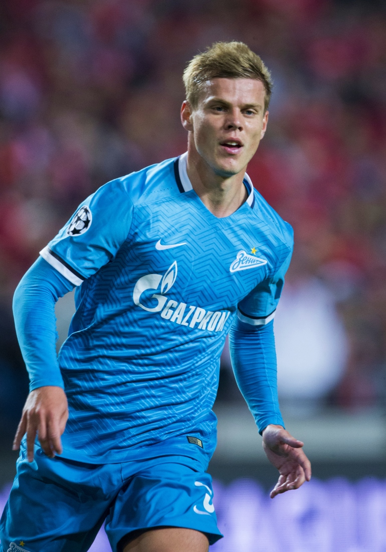 Aleksandr Kokorin